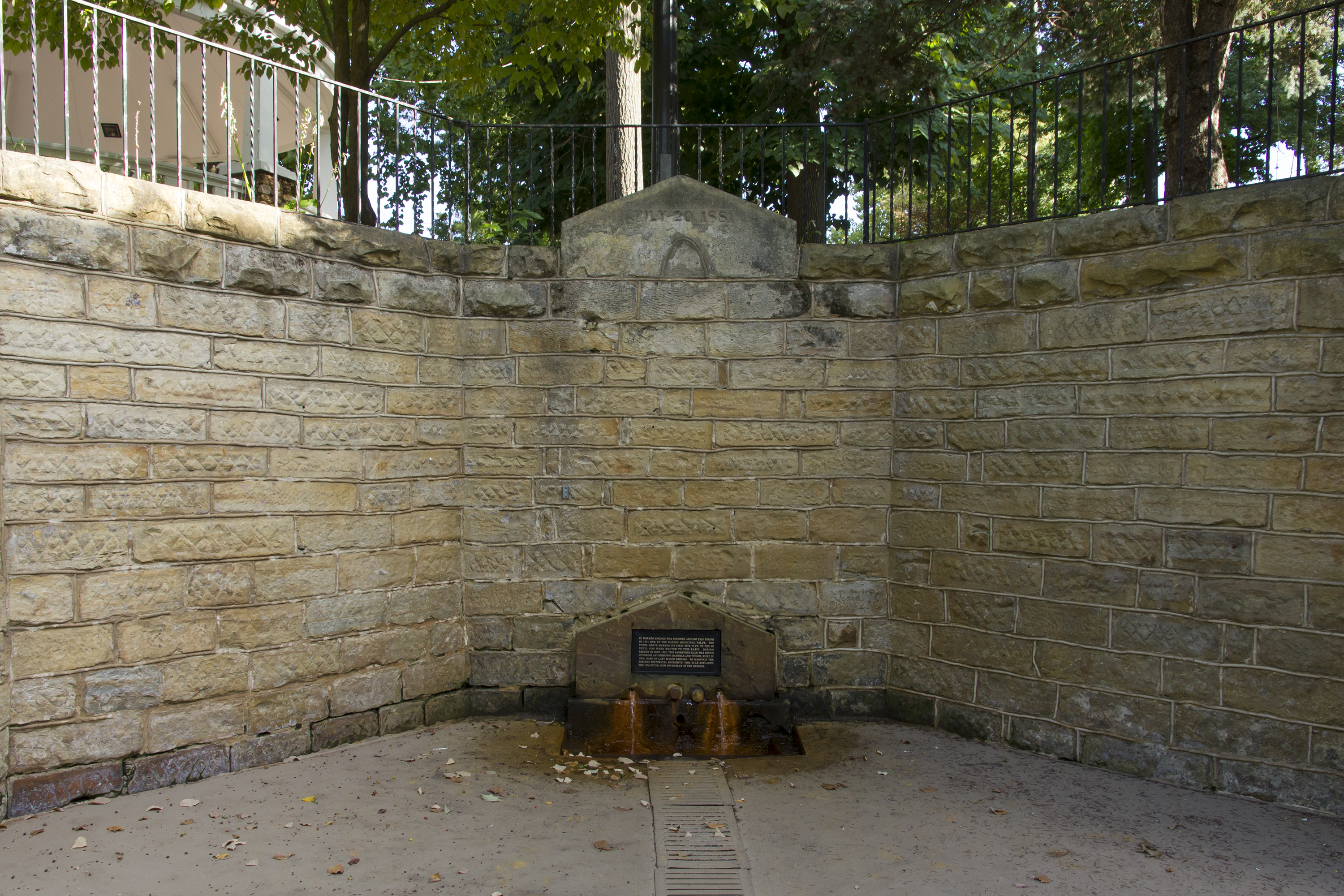 The eponymous spring of El Dorado Springs, MO. Located in the city park.